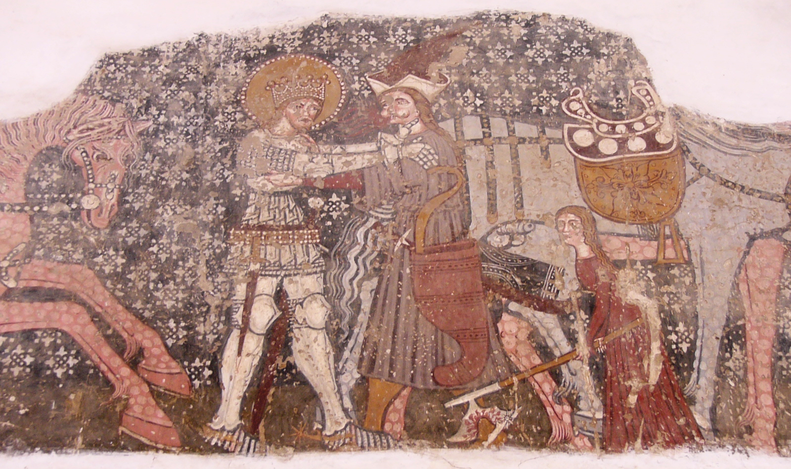 Derzs, murals in the Unitarian Church